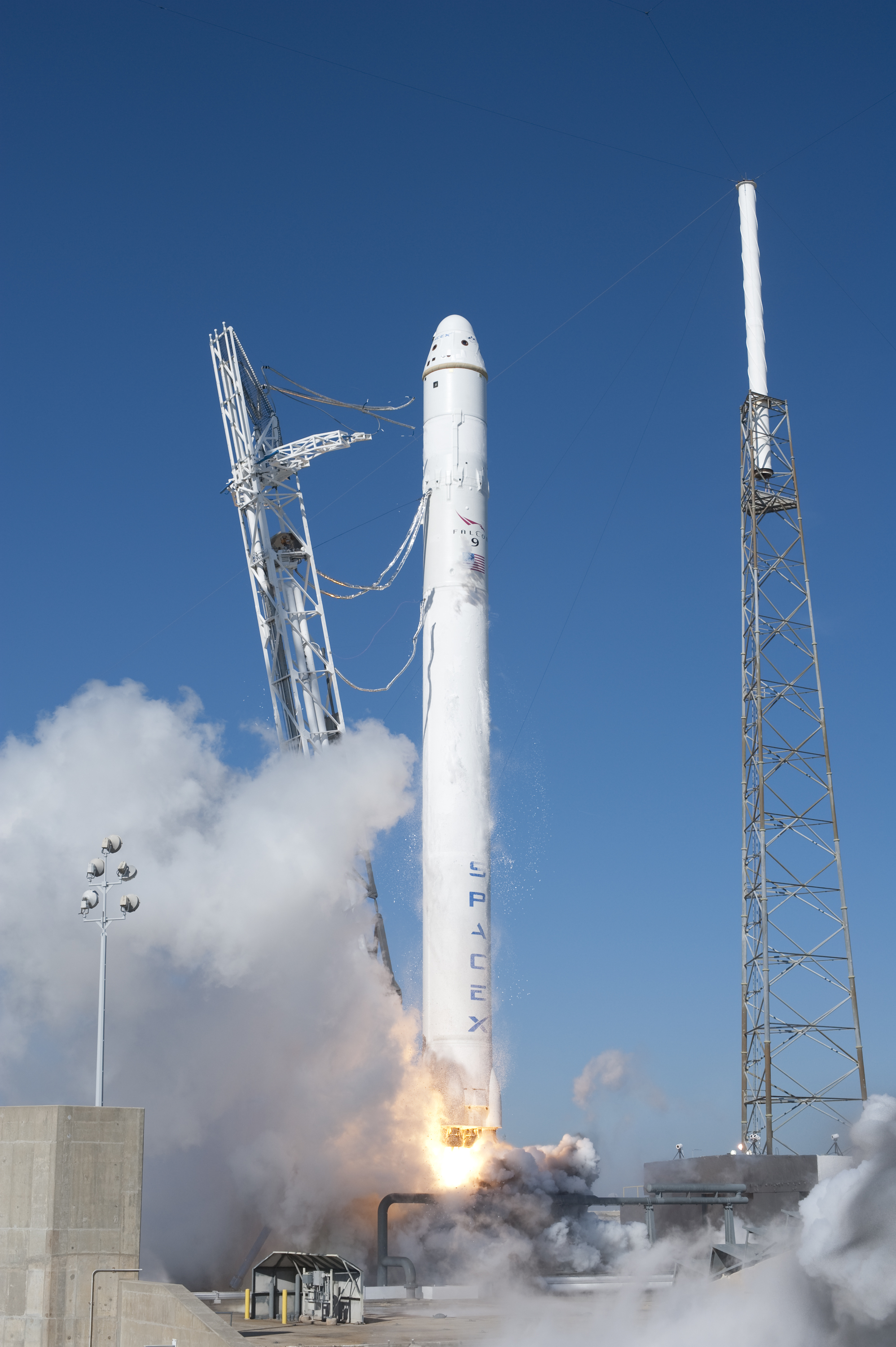 SpaceX’s Falcon 9 rocket and Dragon spacecraft lift off from Launch Complex-40 at Cape Canaveral Air Force Station, Fla., at 10:43 a.m. EST. In orbit, the Dragon capsule will go through several maneuvers before it re-enters the atmosphere and splashes down in the Pacific Ocean about 500 miles west of the coast of Mexico. This is first demonstration flight for NASA's Commercial Orbital Transportation Services (COTS) program, which will provide cargo flights to the International Space Station in the future.